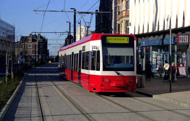 George Street East, Croydon In October 1999, the New Addington line had not been completed, and trams on driver-training worked round the central loop, reversing on the crossover outside Safeway's on George Street East, near to where car 2550 is seen above.